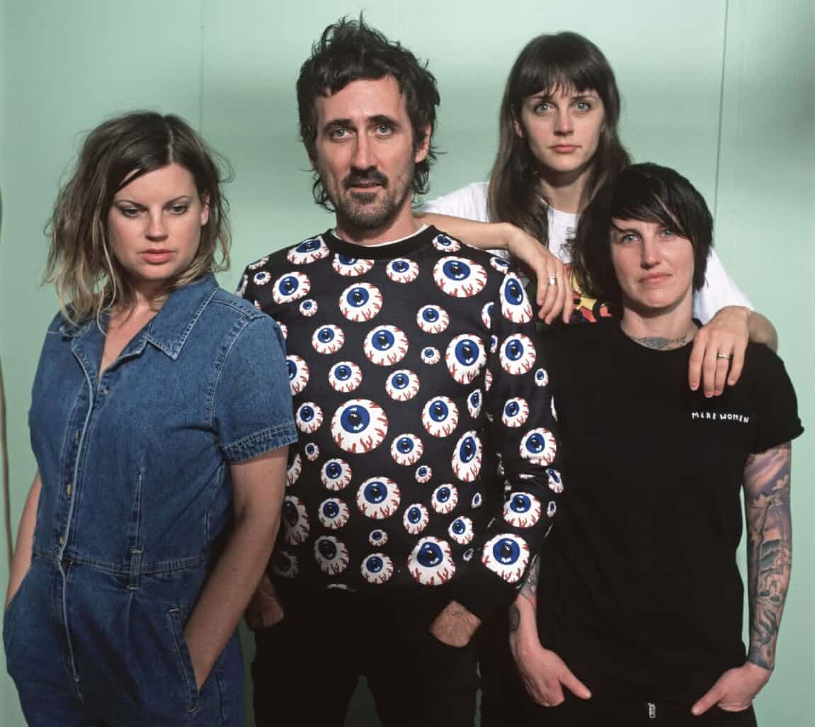 This is a photograph of the Australian band Tropical Fuck Storm.